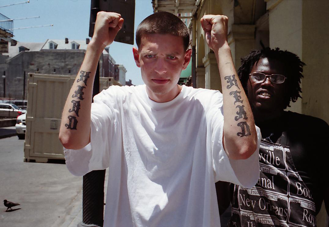 some dude showing tats